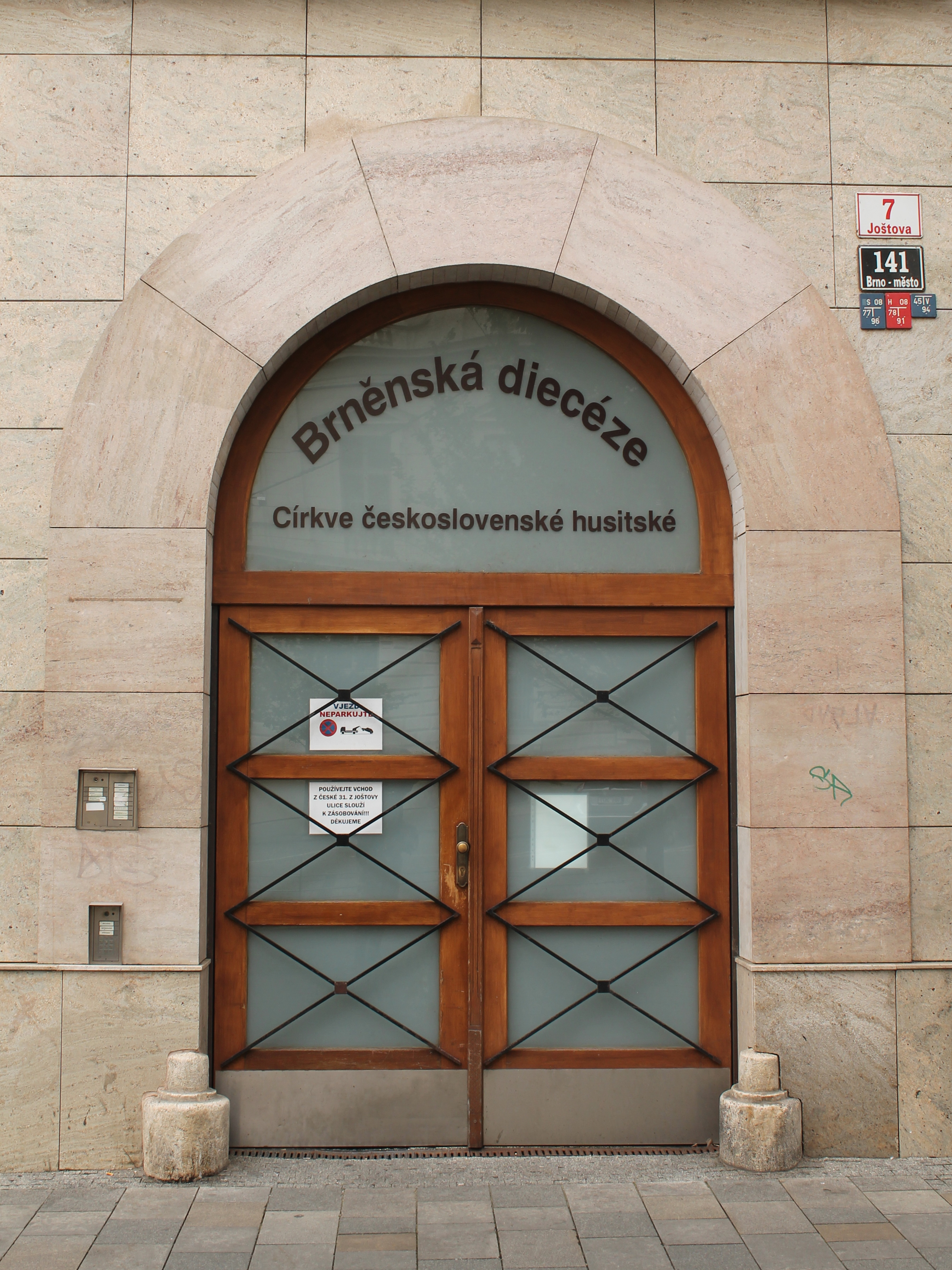 Seat of the diocese of Brno of the Czechoslovak Hussite Church, Brno, Brno-City District, Czech Republic